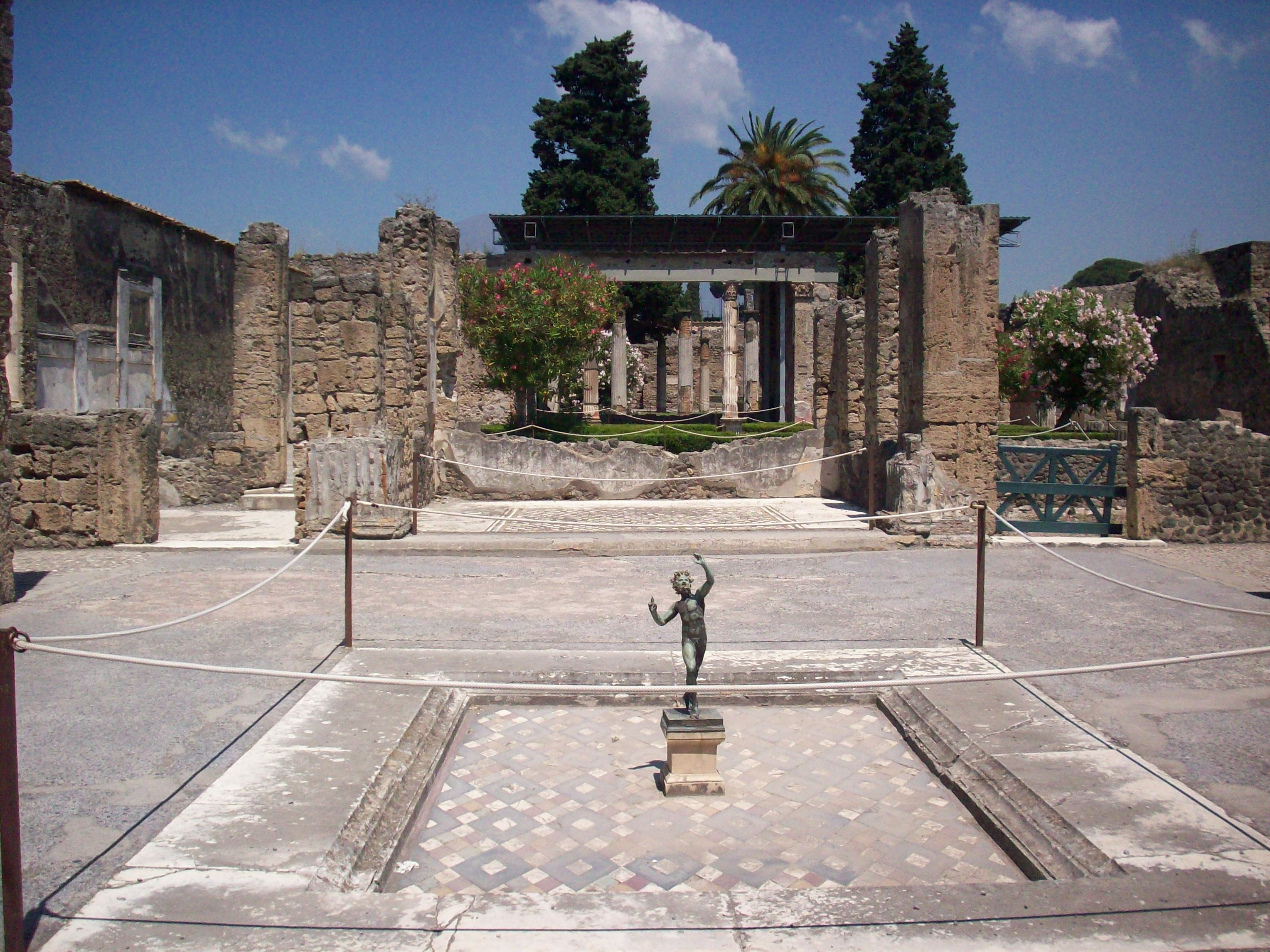 House of the Faun in Pompeii, Italy